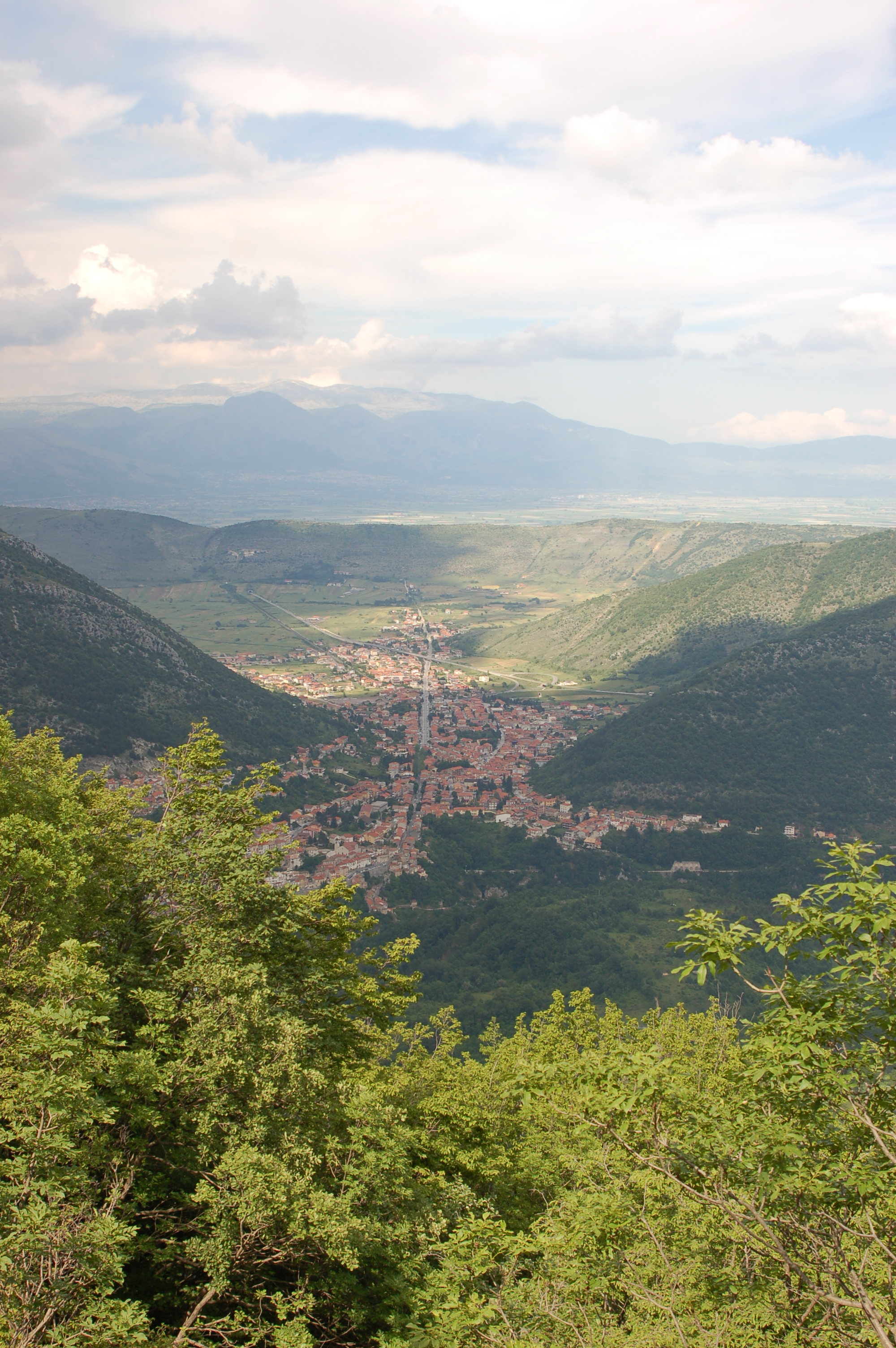 View of the town of Capistrello (Abruzzo, Italy)